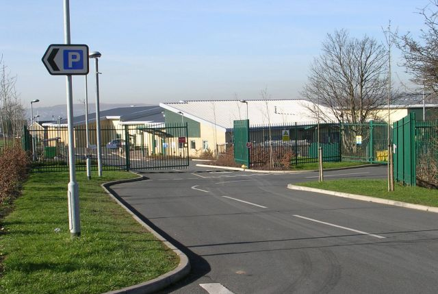 Rawdon Littlemoor Primary School - New Road Side